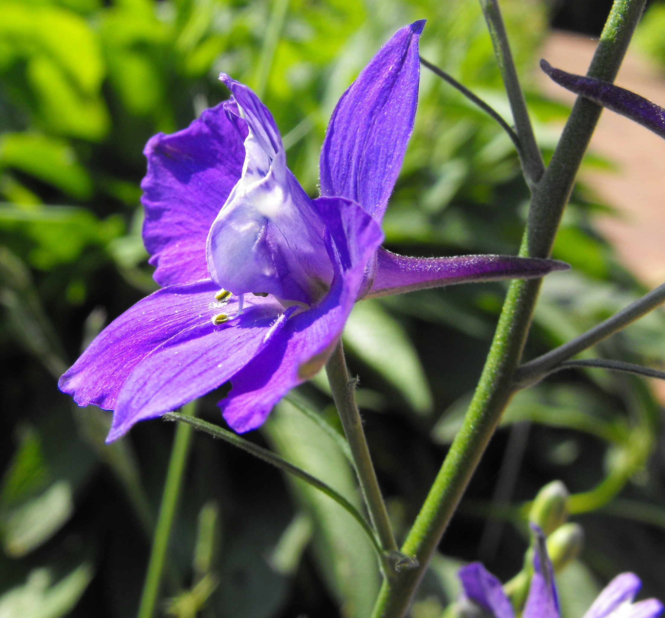 Consolida ajacis at the Huntington Library & Botanical Gardens in San Marino, California, USA. Identified by sign as C. ambigua